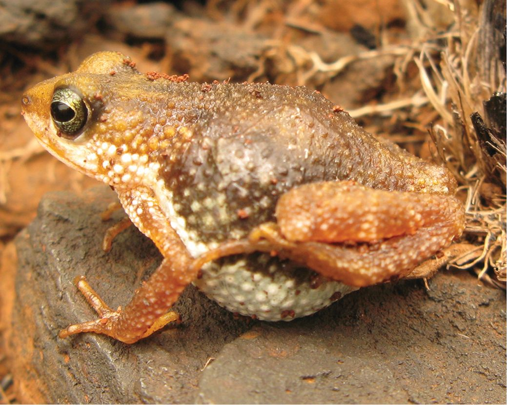 Nimbaphrynoides occidentalis - a large gestating female in June, shortly before parturition